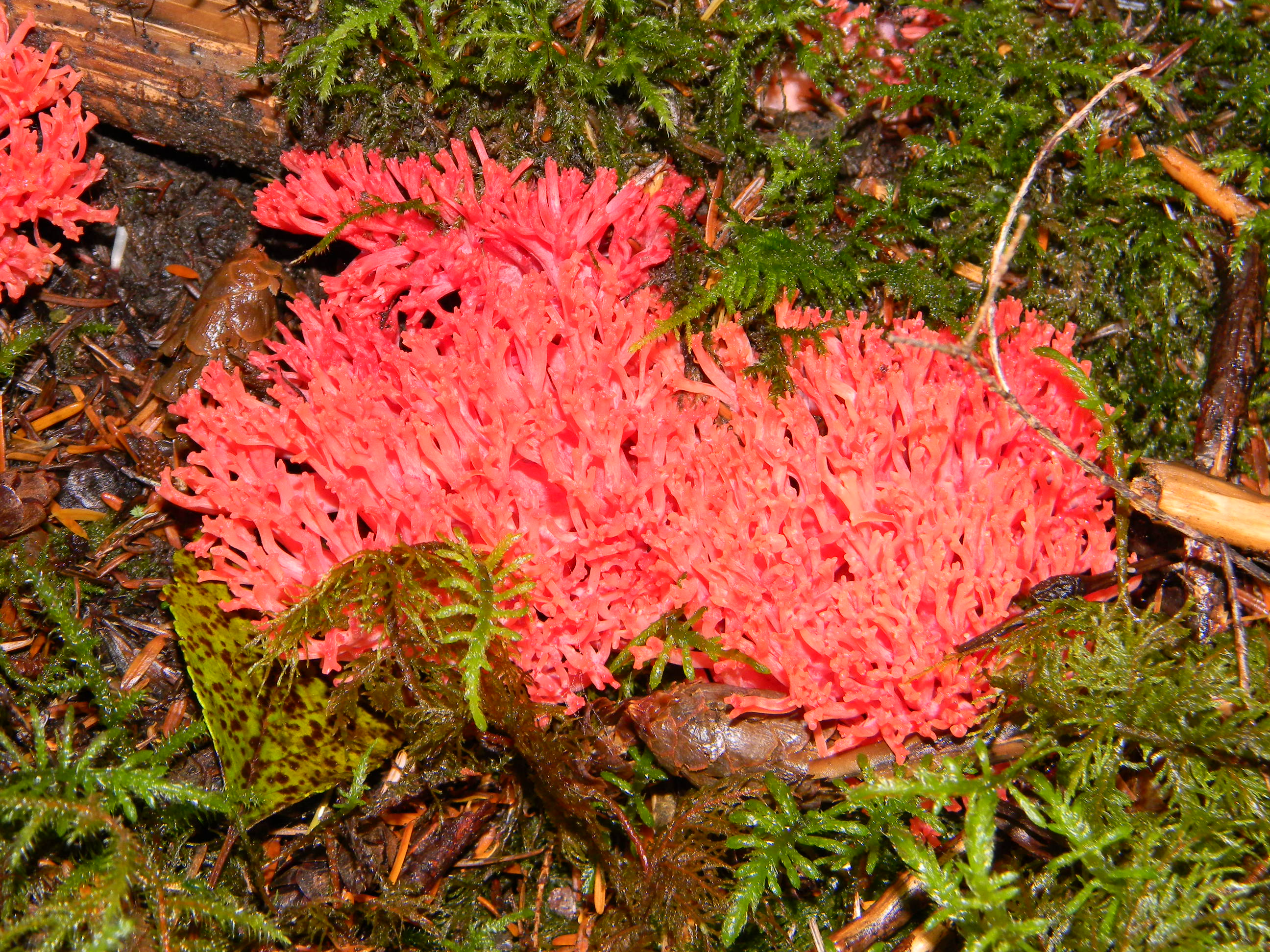 A fruit body of the coral fungus Ramaria araiospora Marr & D.E. Stuntz. Photographed in Sol Duc Valley, Olympic National Park, Clallam Co., Washington, USA.